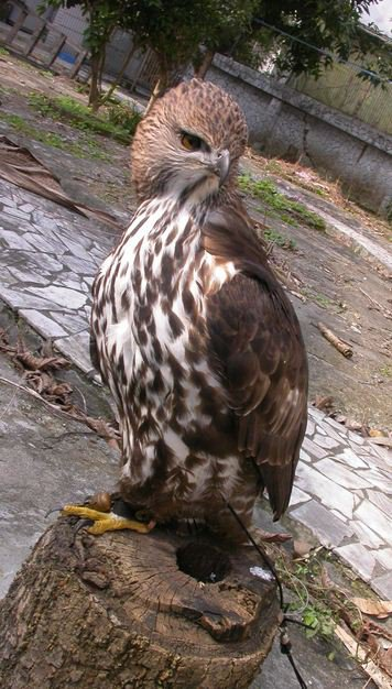 Changeable hawk-eagle